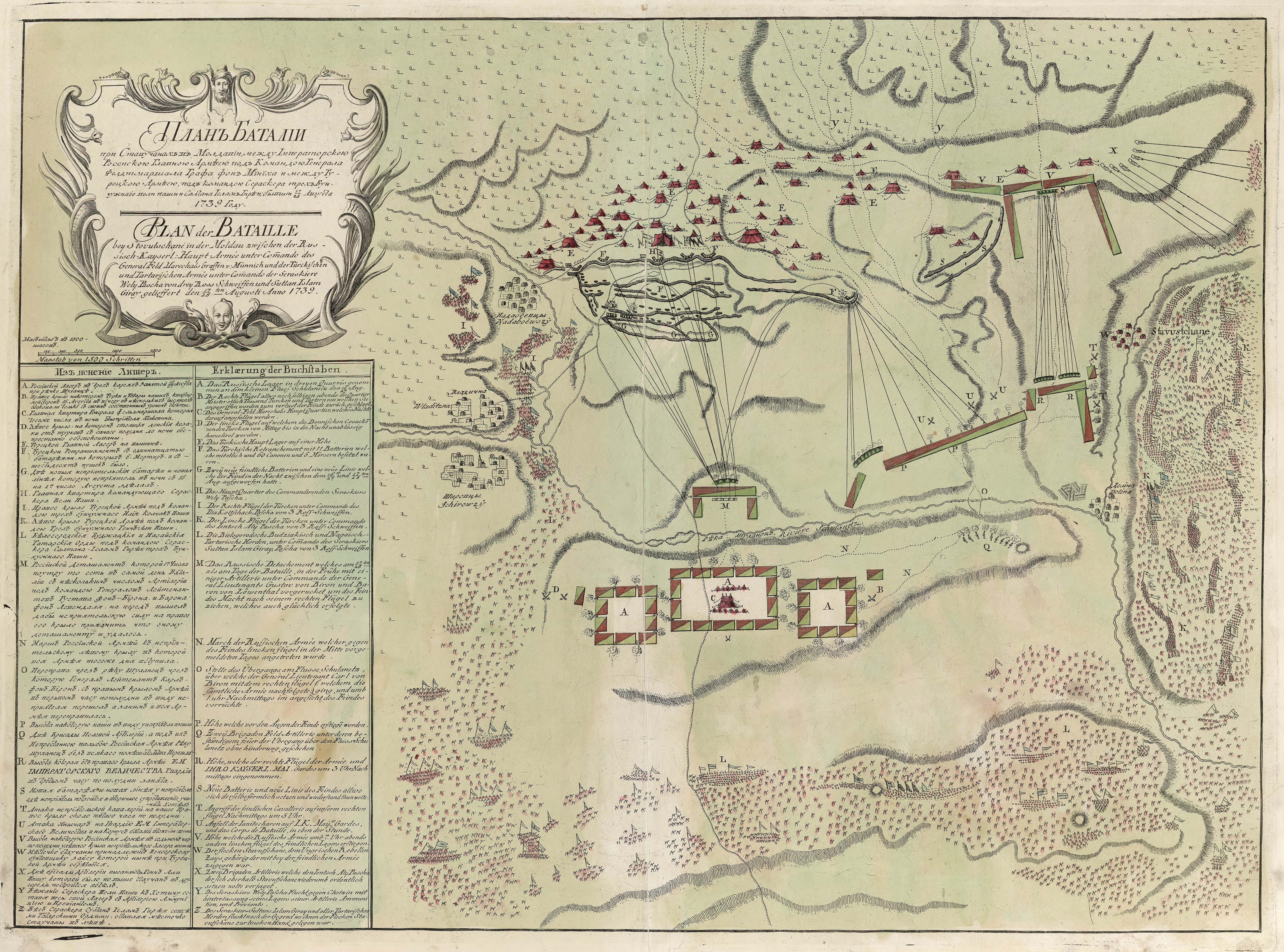 Map of Battle of Stavuchany (August 17(28) of 1739) betweem armies of the Russian Empire (commander — field marshal Burkhard Christoph von Münnich) and Ottoman Empire (serasker Veli-pasha), which took place during the Russo-Turkish War of 1735-1739. In Russian and Deutsch languages.